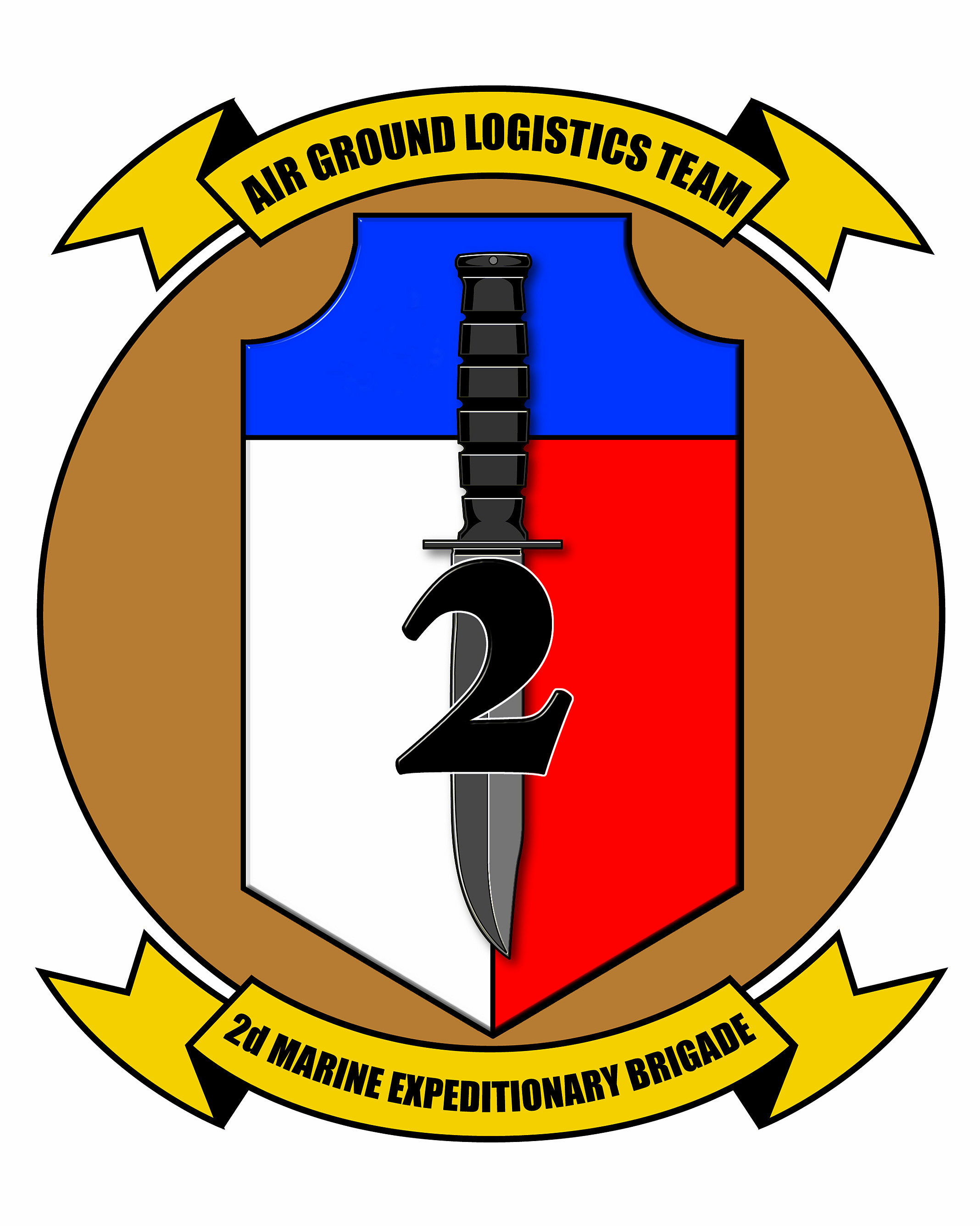 From the Depart of Defense image search website - Defense Visual Information Center. Picture comes up if you search for 2nd Marine Expeditionary Brigade ID: DM-SD-05-12571 Service Depicted: Marines Official logo 2nd Marine Expeditionary Brigade. Location: CAMP LEJEUNE, NORTH CAROLINA (NC) UNITED STATES OF AMERICA (USA) Date Shot: 1 Jan 2005